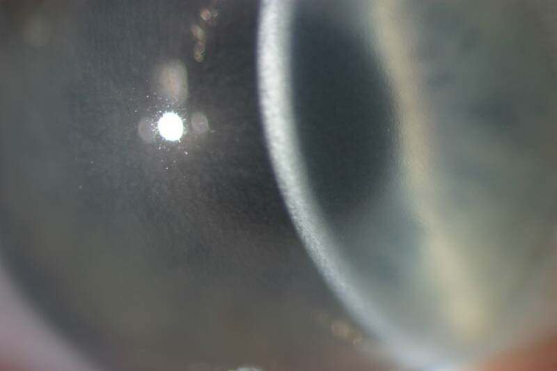 Congenital stromal dystrophy. The cornea is particularly opaque in the anterior stroma by slit-lamp biomicroscopy. Klintworth Orphanet Journal of Rare Diseases 2009 4:7